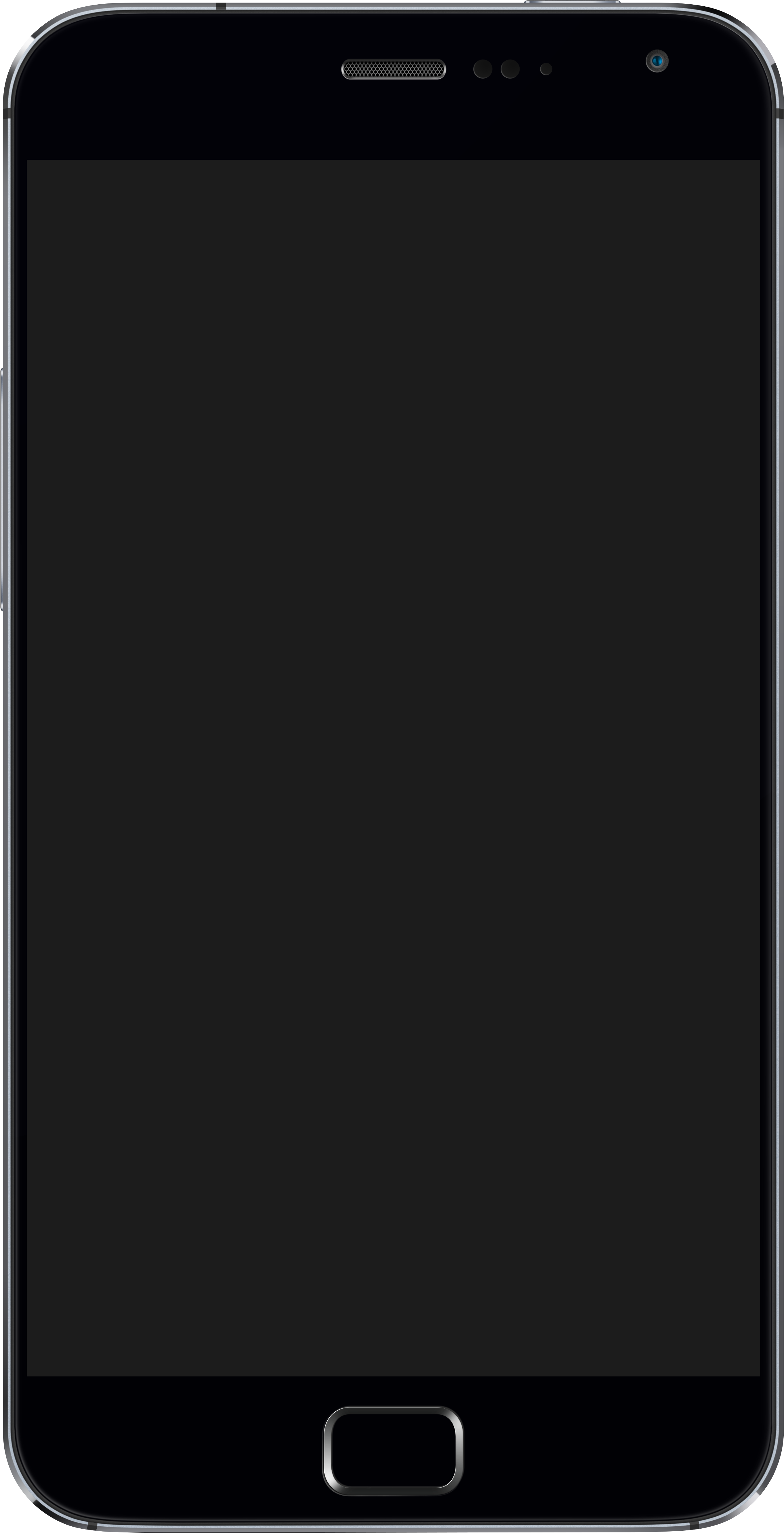 Illustration - Meizu MX4 Pro